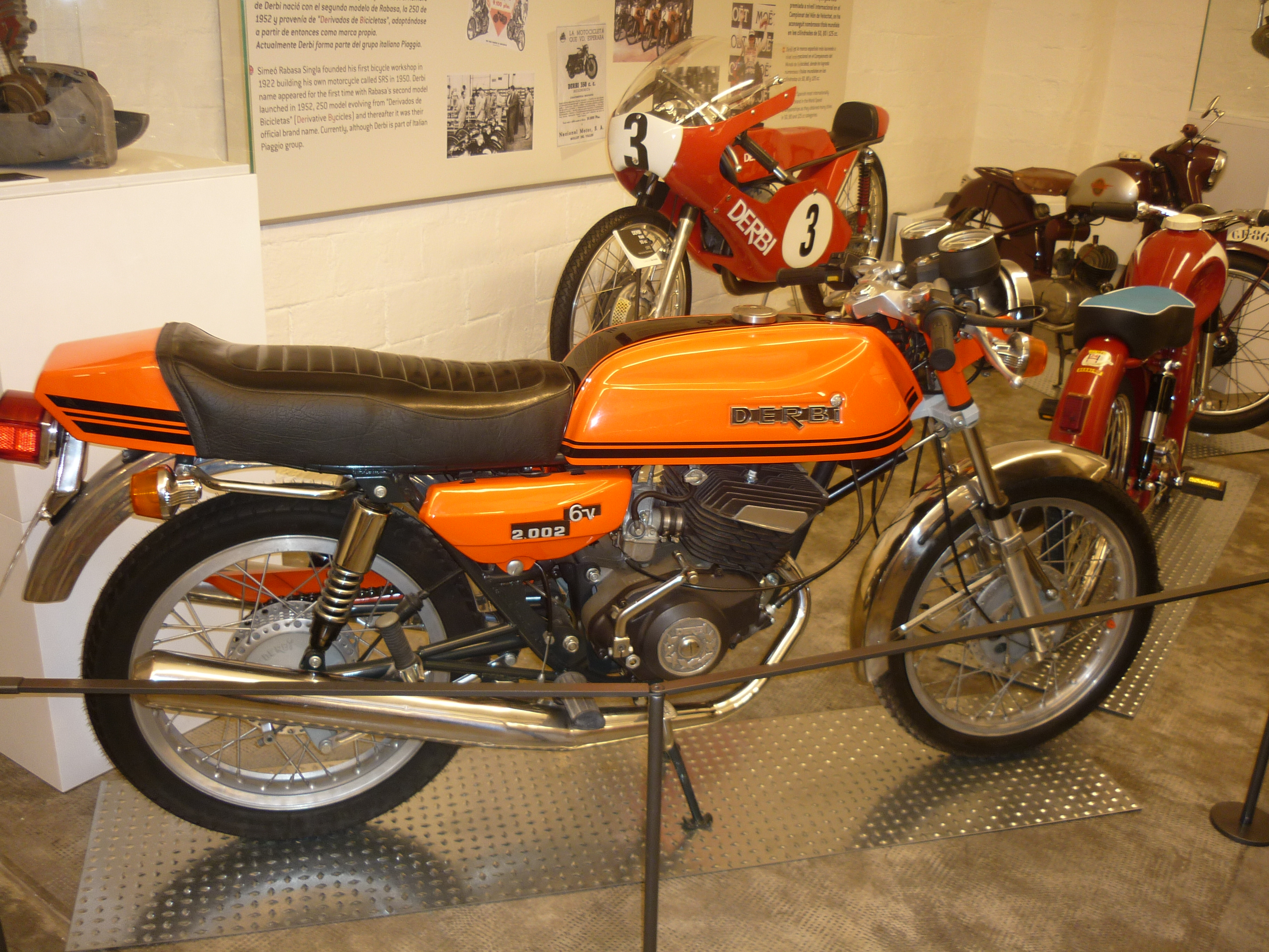 Derbi 2002 GP 187cc (1976). Museu de la Moto de Barcelona (Catalonia).